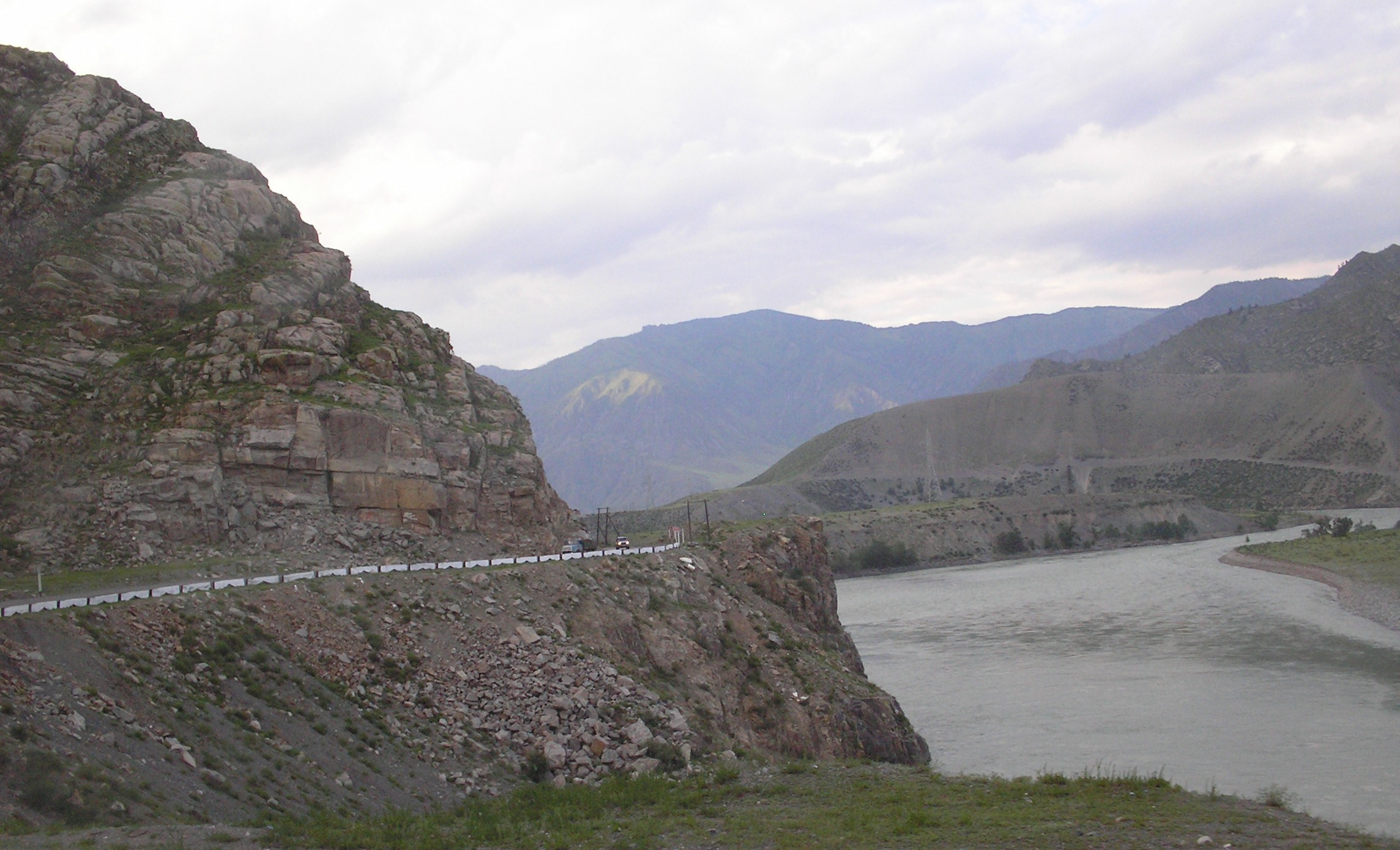 M52 highway (Chuysky Trakt) in Ongudaysky District